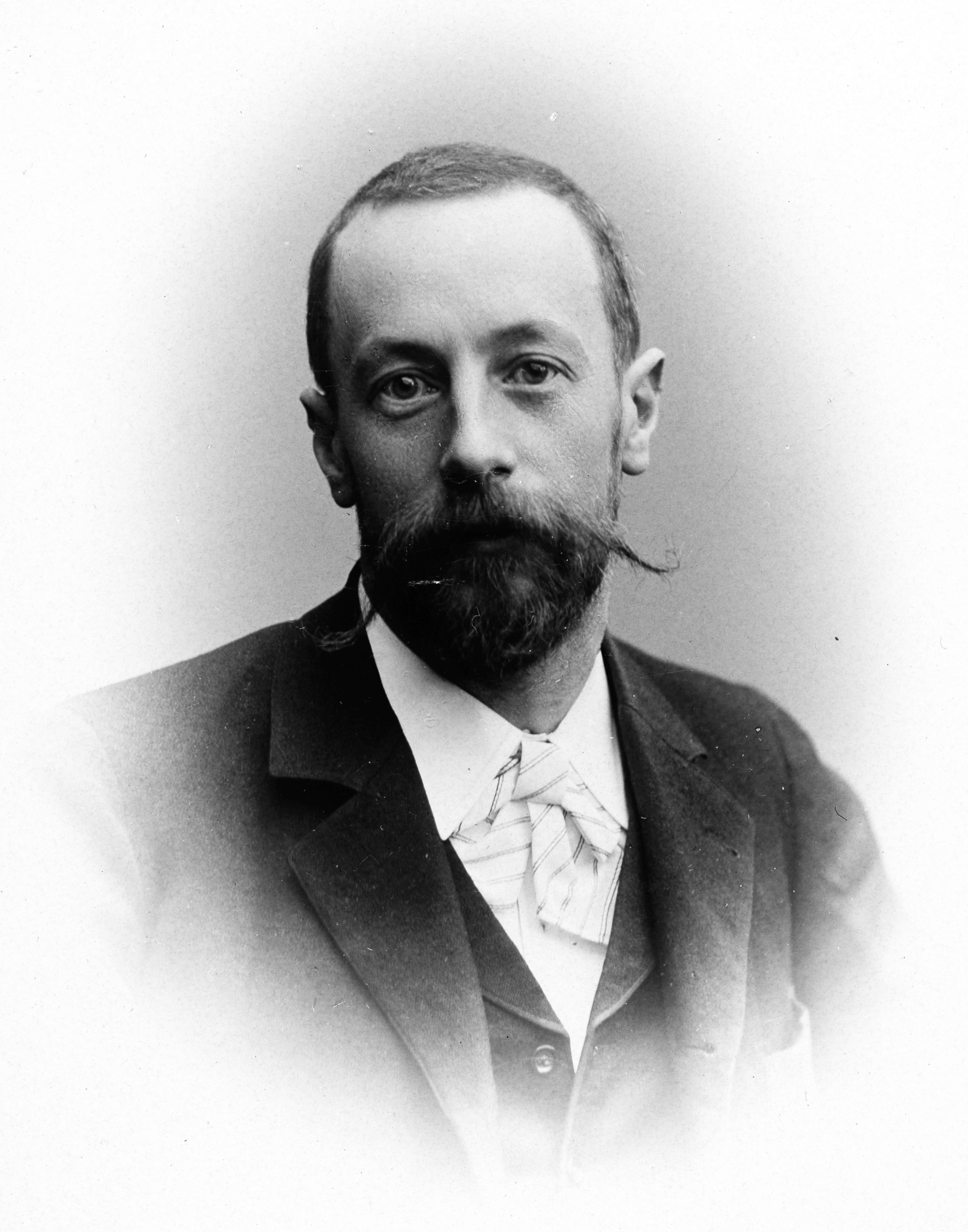 J.A.G. Acke (A. Andersson). slsa807_19 Zacharias Topelius Skrifter Svenska litteratursällskapet i Finland